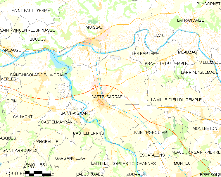 Map of French municipality Castelsarrasin